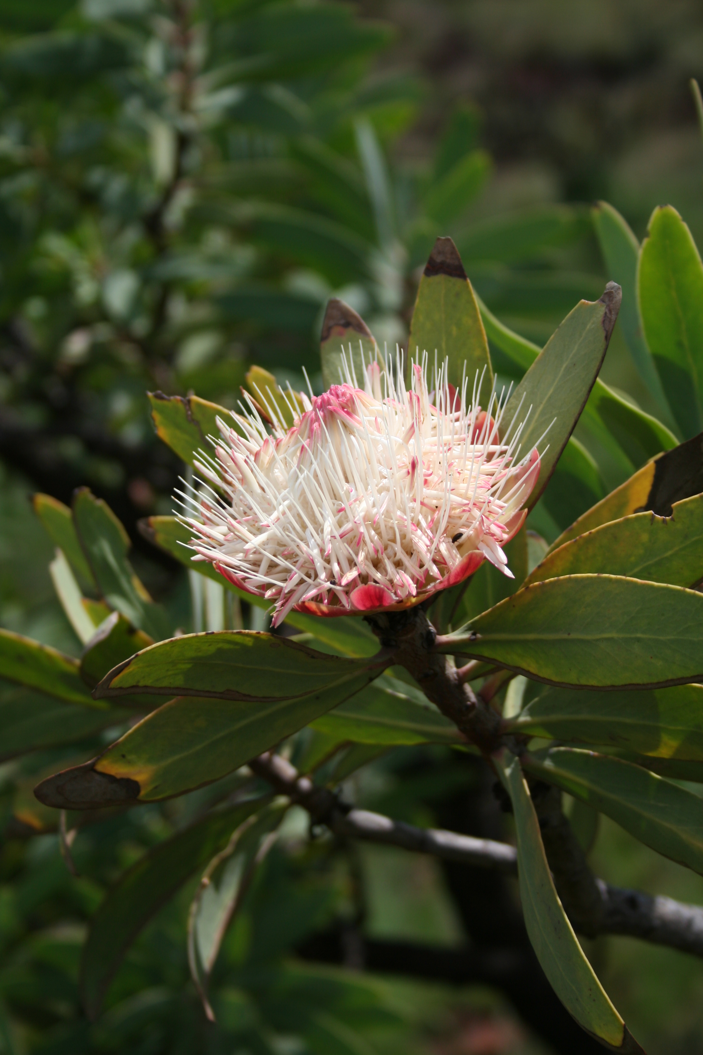 Protea caffra, above W. Sisulu Bot. Garden, South Africa